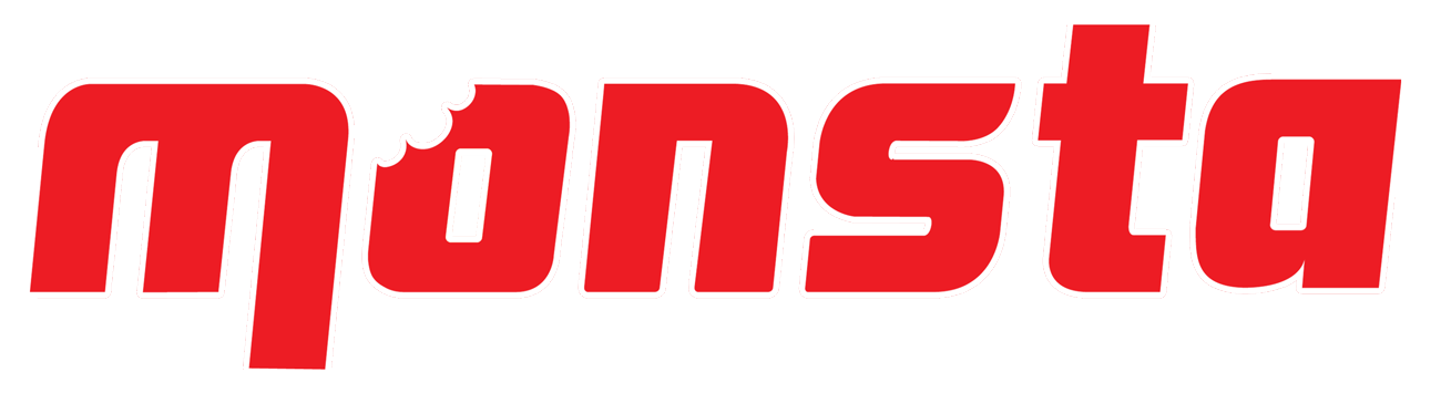 This is the Official Logo of Animonsta Studios